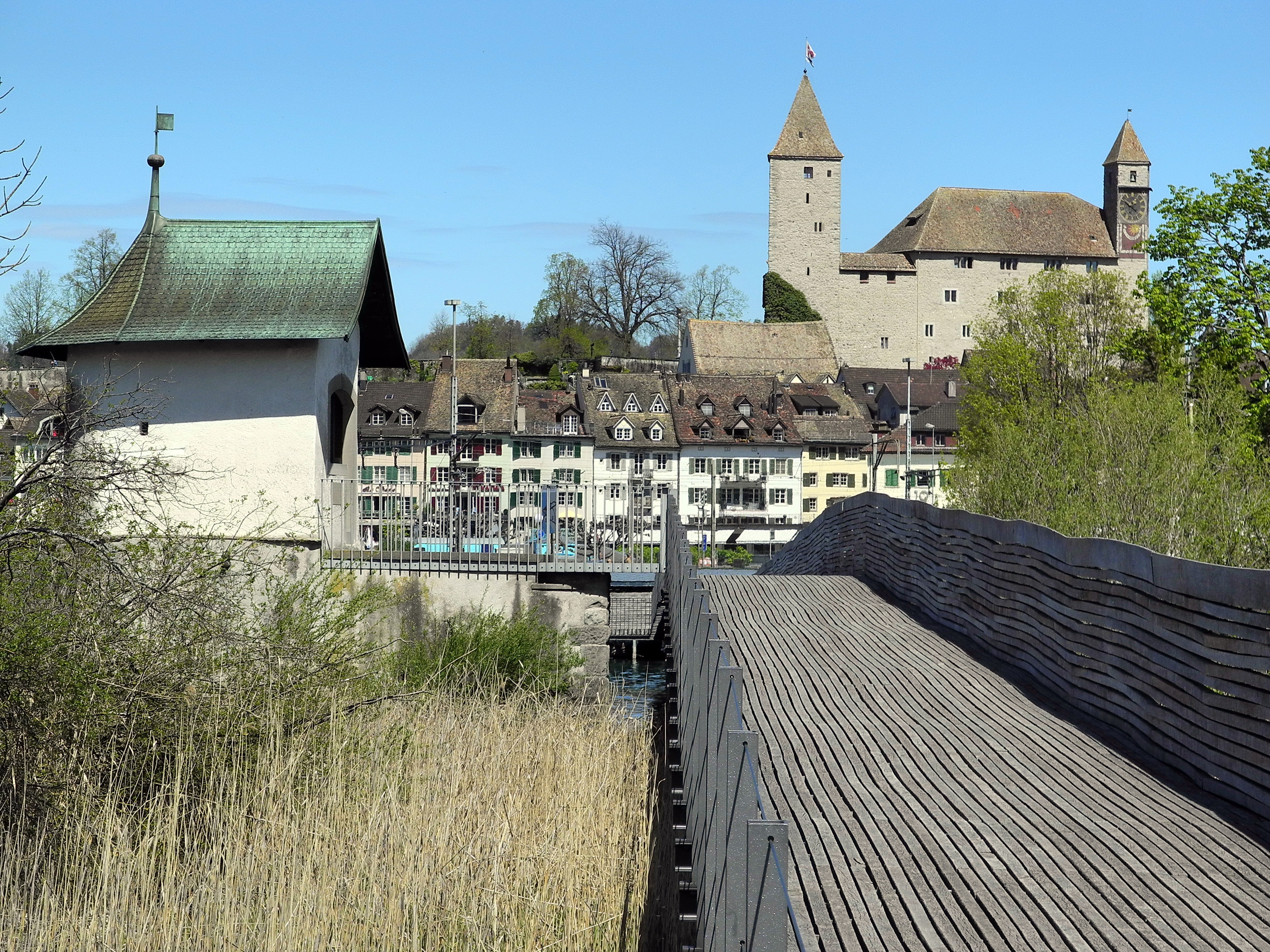 Rapperswil (Switzerland) as seen from the wooden bridge between Rapperswil and Hurden, crossing Obersee (upper Lake Zurich), «Heilig Hüsli» chapel to the left, Altstadt, Schloss and Stadtpfarrkirche (St. John's Church) in the background.